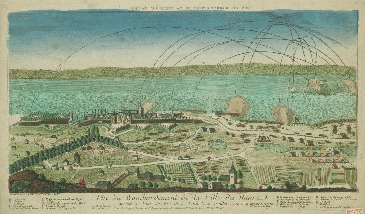 Bombing of Le Havre in 1759 by the English fleet. (Seven Years' War)